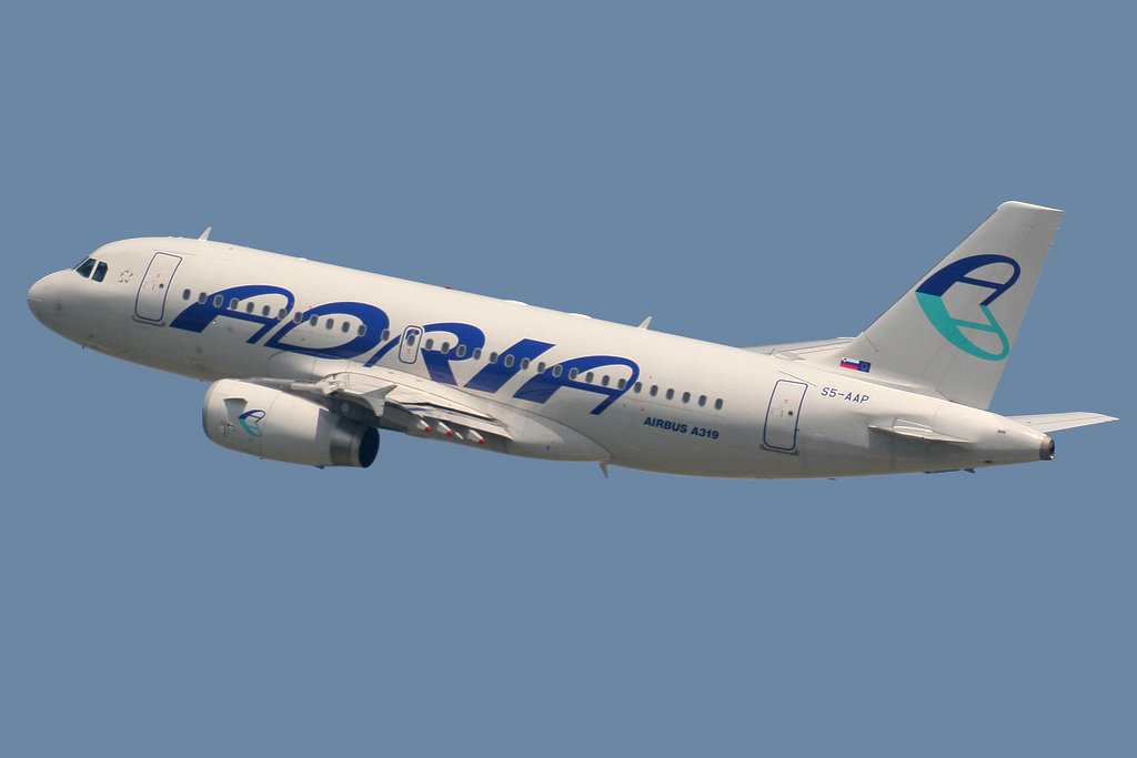 Departure runway 25L of Barcelona Airport